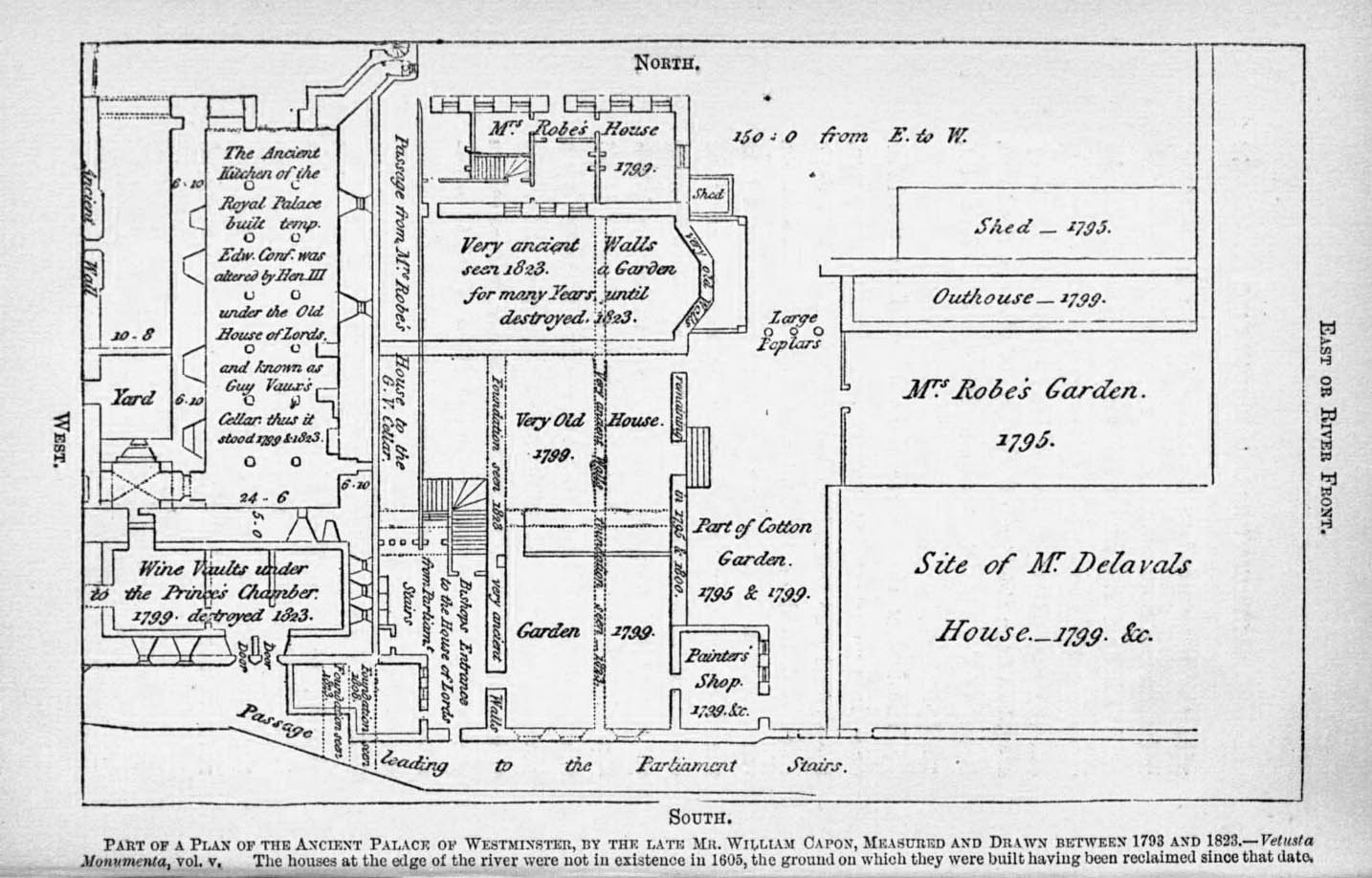 A diagram of the old Parliament buildings, London